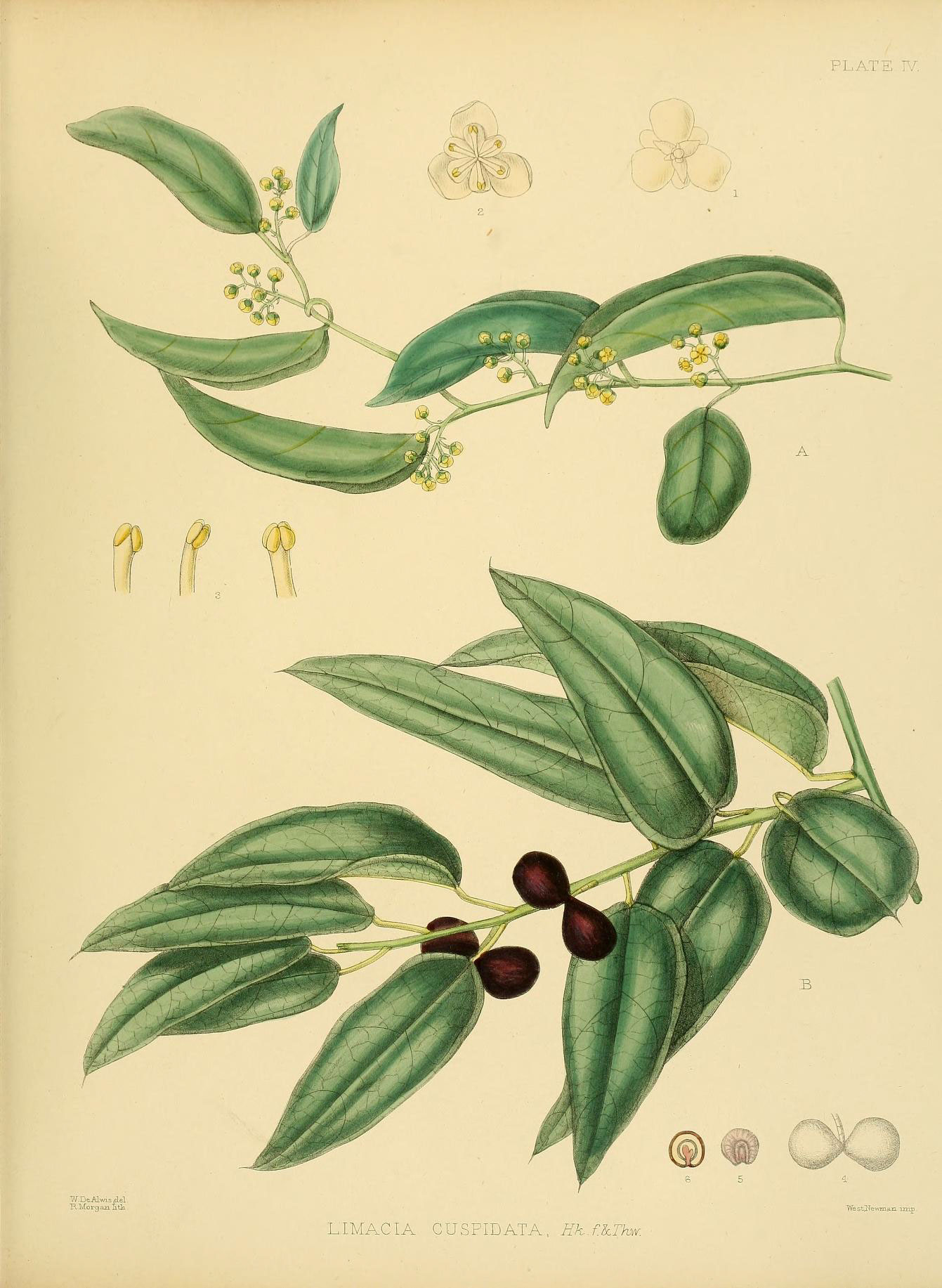 PL A r W.DeAlwisda. H.Movgaai tifla West3ewma.ii imp L'IMACIA CUSPIDATA, Hk.f.kThw.